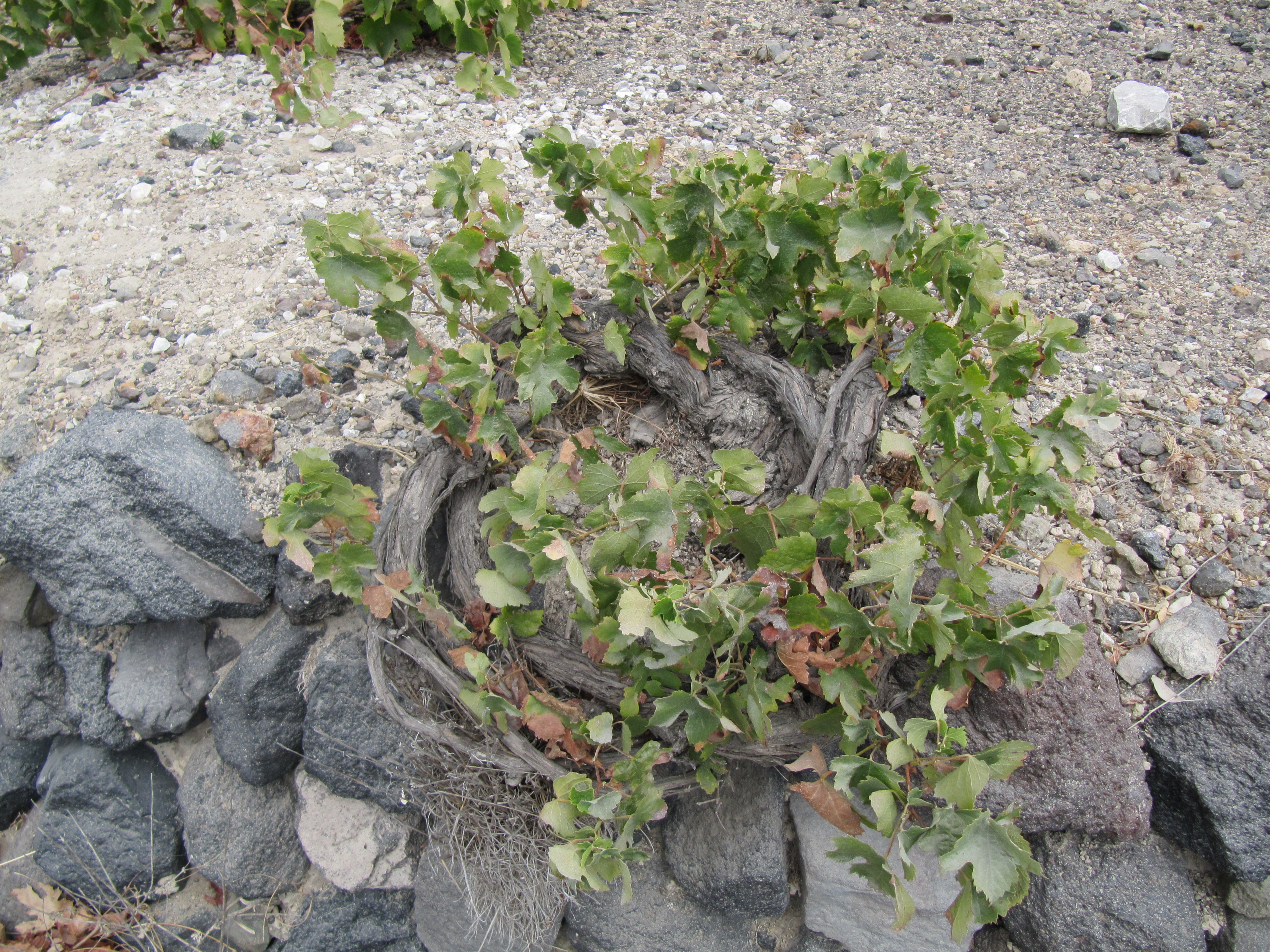 (From author: Santorini Grapes grow close to ground - weave into circles) This can be described as an unshaped goblet vine training method.